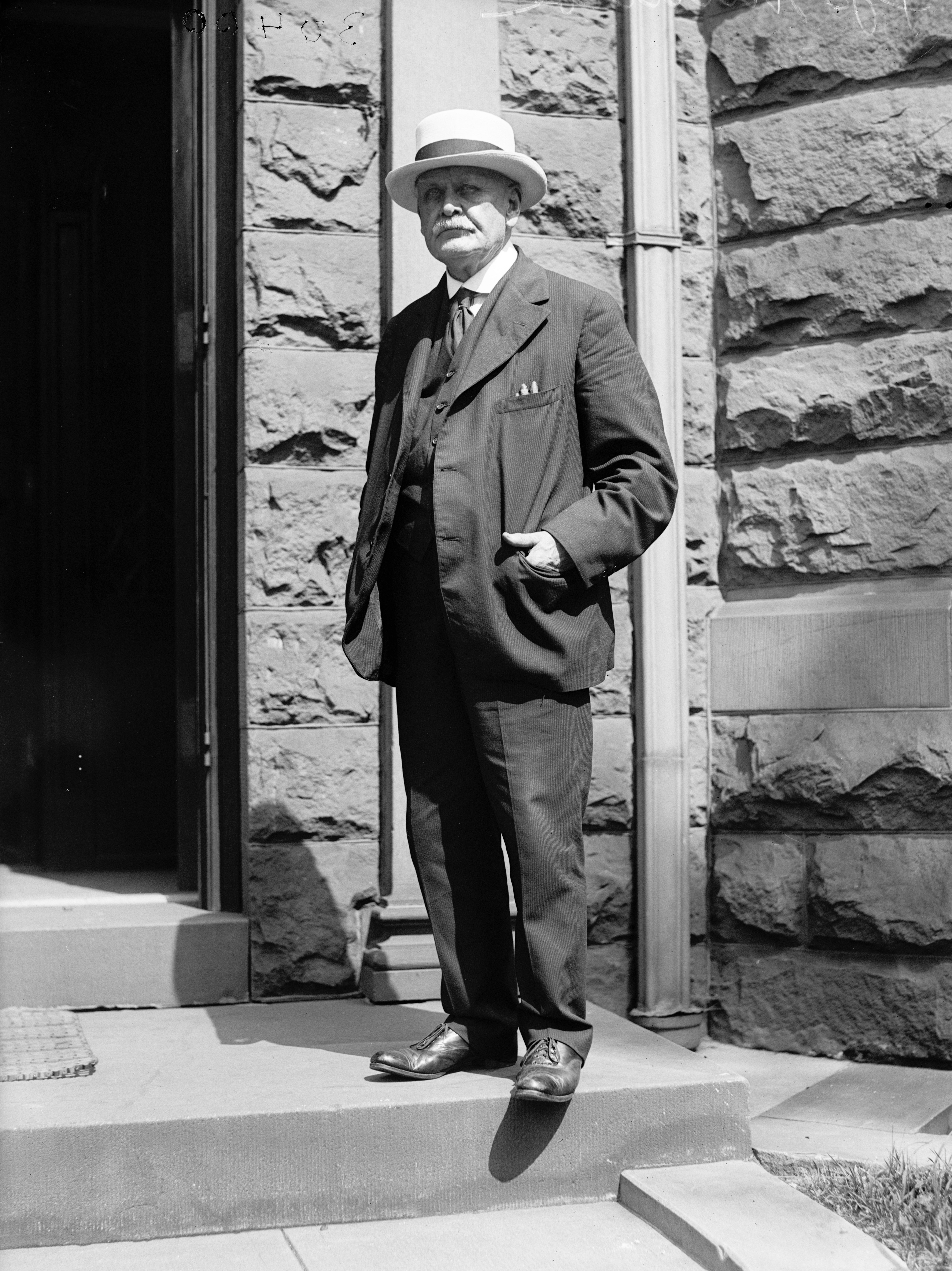 Dr. Charles Edward Munroe, discoverer of the Munroe effect, educator, author of over 100 books, president of the American Chemical Society in 1898, and consultant to the United States Geological Society and the United States Bureau of Mines.